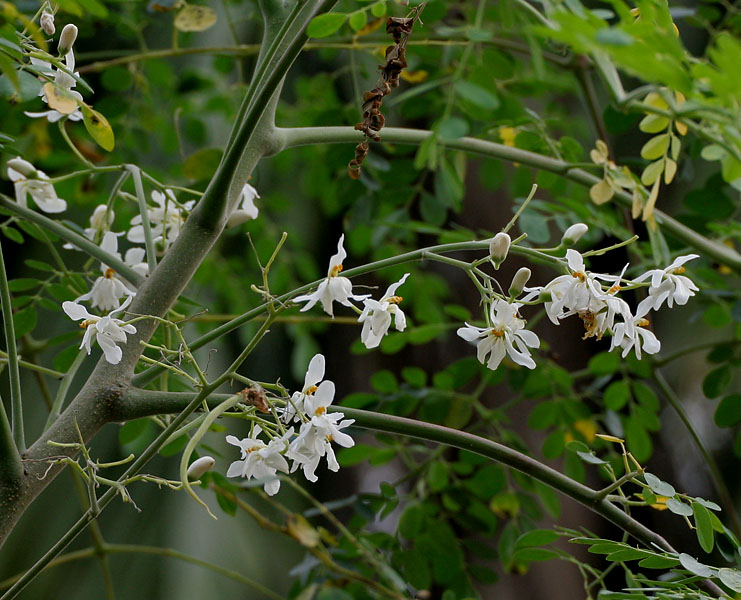 Sonjna Moringa oleifera at Jayanti in Buxa Tiger Reserve in Jalpaiguri district of West Bengal, India.